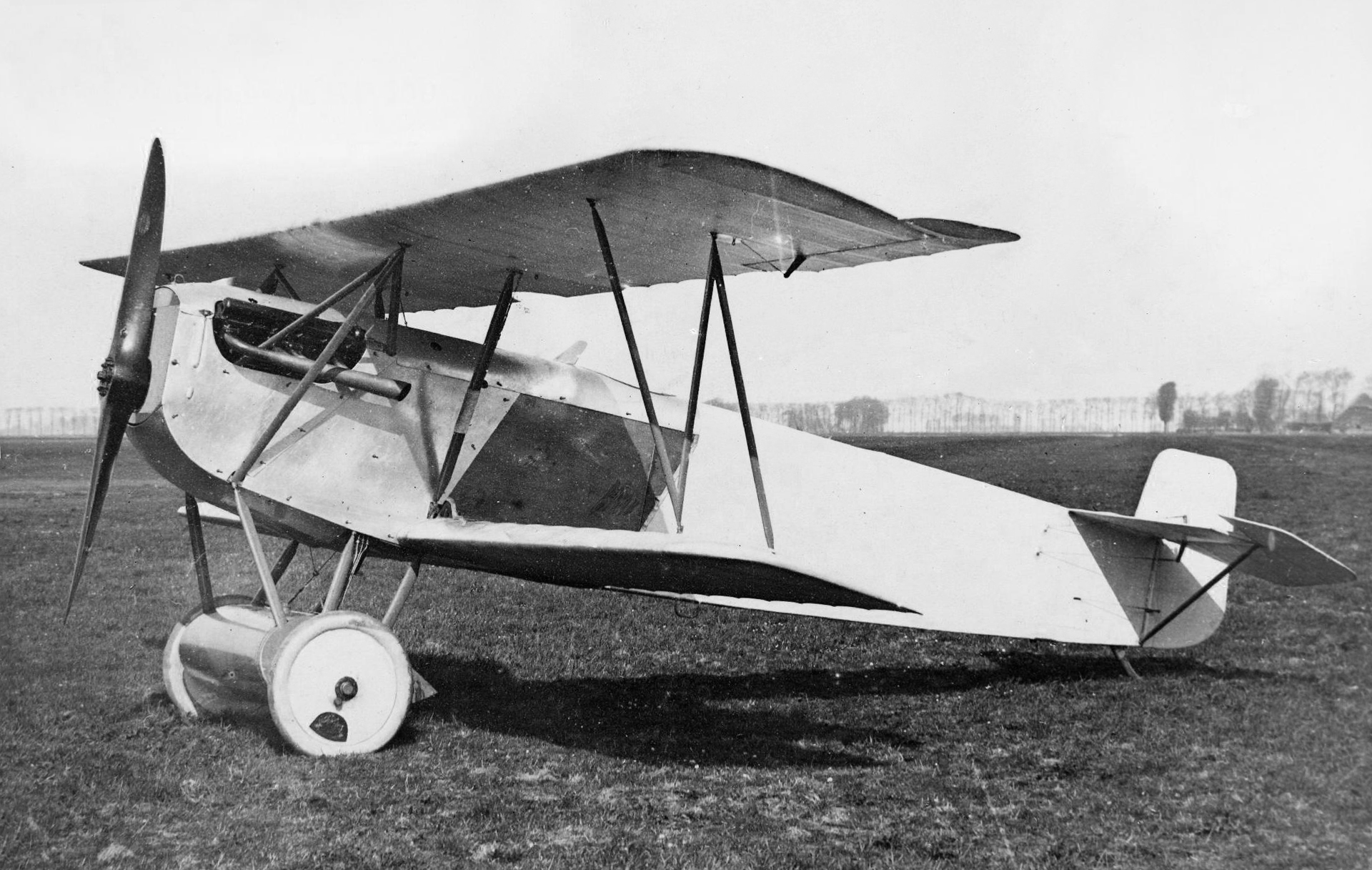 Fokker D.IX